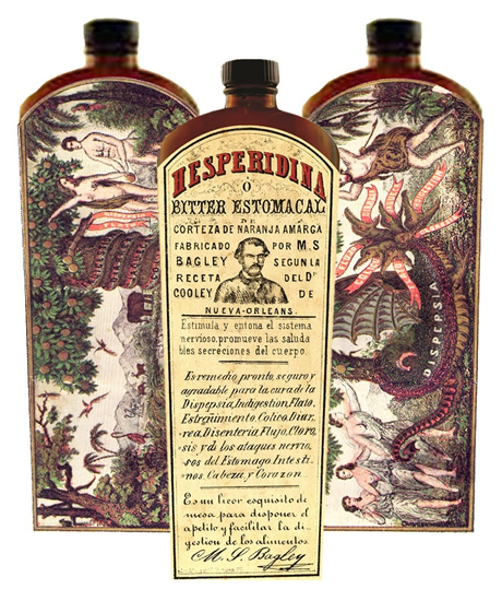 The first design of the Hesperidina bottle.